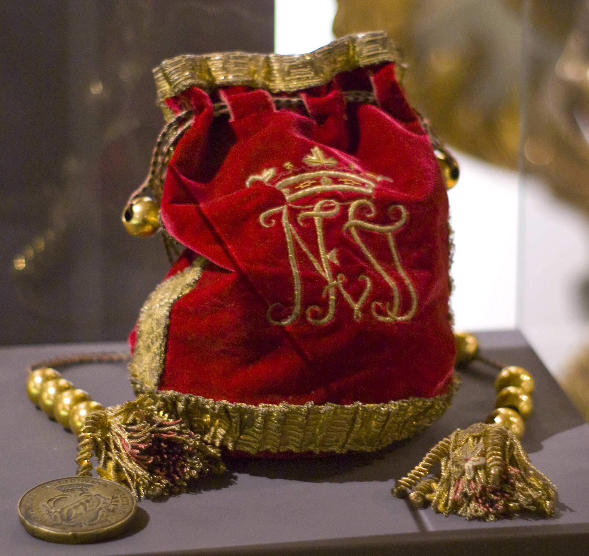 Seal pouch and small city seal of Bern, 1754.